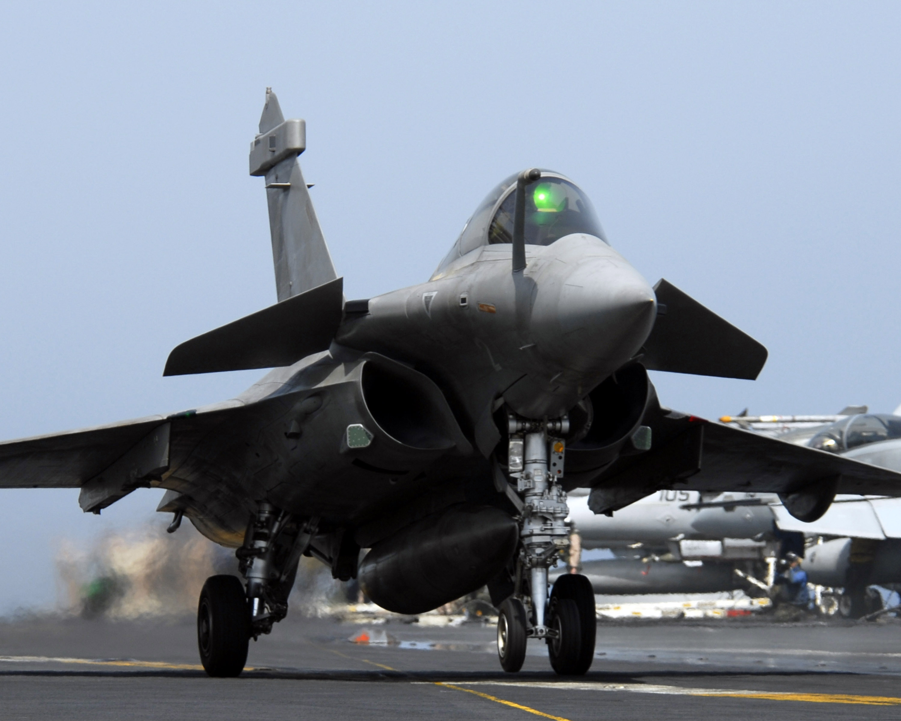 A French Dassault Rafale aircraft from the nuclear-powered aircraft carrier French Navy Ship Charles de Gaulle (R 91) performs a touch-and-go landing April 12, 2007, on the flight deck of the Nimitz-class aircraft carrier USS John C. Stennis (CVN 74). St ennis, as part of the John C. Stennis Carrier Strike Group, and Charles de Gaulle, the flagship of Commander, Task Force 473, are operating in the Northern Arabian Sea. (U.S. Navy photo by Mass Communication Specialist 1st Class Denny Cantrell) (Released ) (Released to Public)